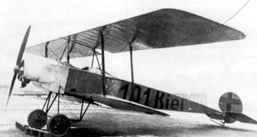 Fokker B.I M7